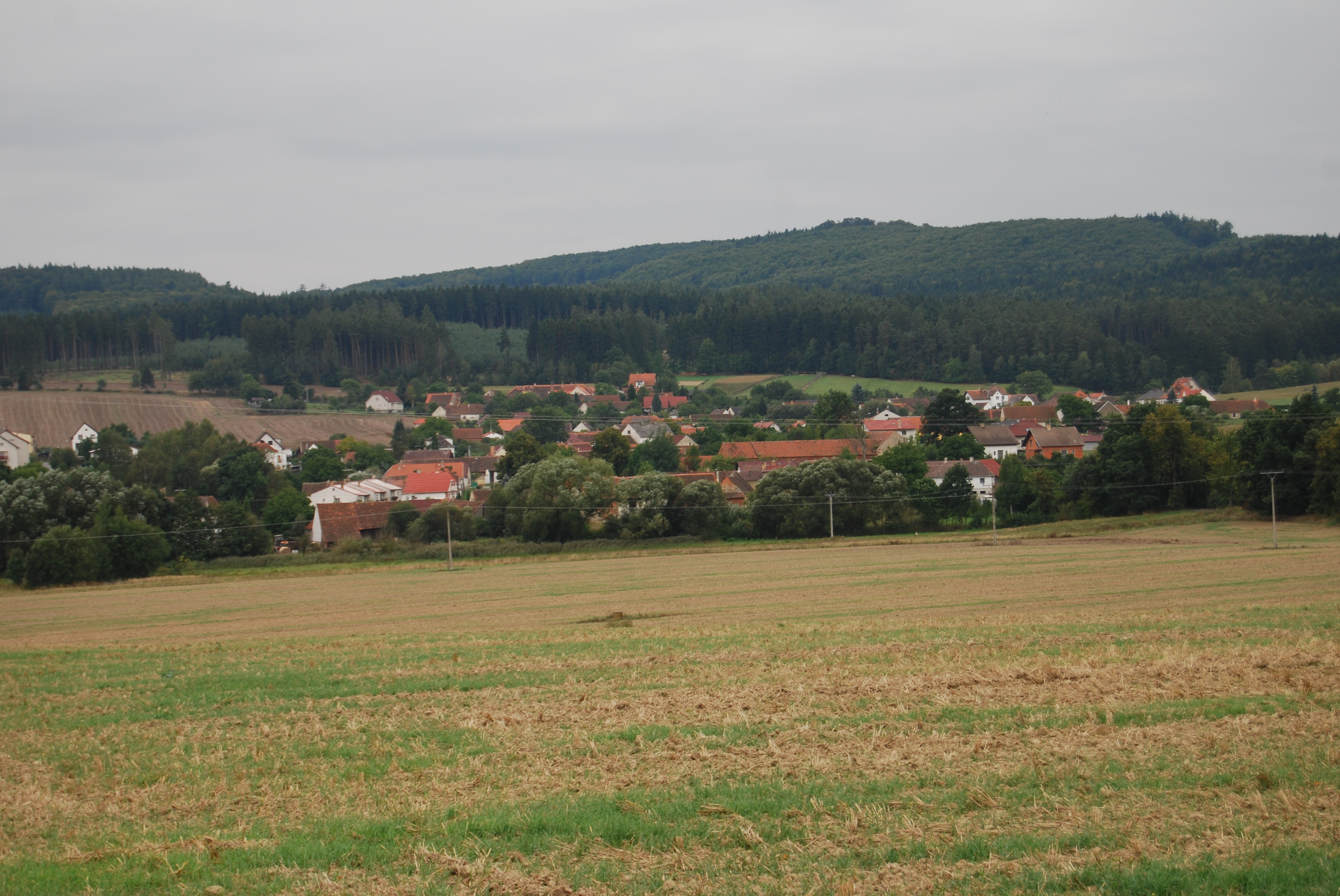 Albrechtice nad Vltavou village in Pisek District, Czech Republic.